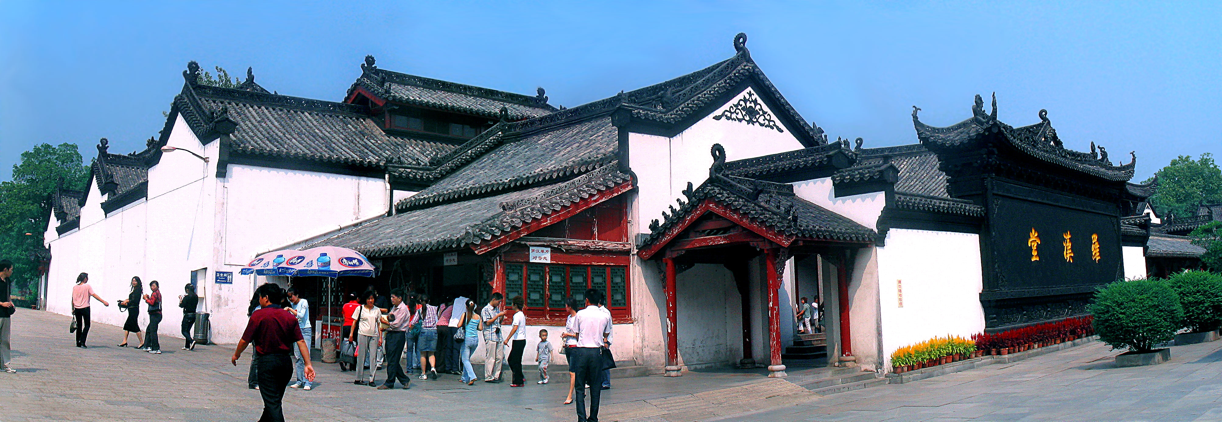 Luohan Hall in Wuhan's Guiyuan Temple Bân-lâm-gú: Tiong-kok Ôo-pak-síng Bú-hàn-tshī Hàn-iông Kui-guân-sī Lô-hàn-tn̂g. 中國湖北省武漢市漢陽歸元寺羅漢堂。